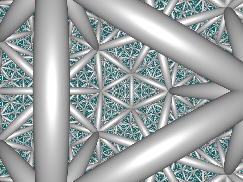 This is the regular {3,5,3} honeycomb in hyperbolic 3-space. The model is cell-centered in the Poincare Ball model, with the viewpoint then placed at the ball origin.